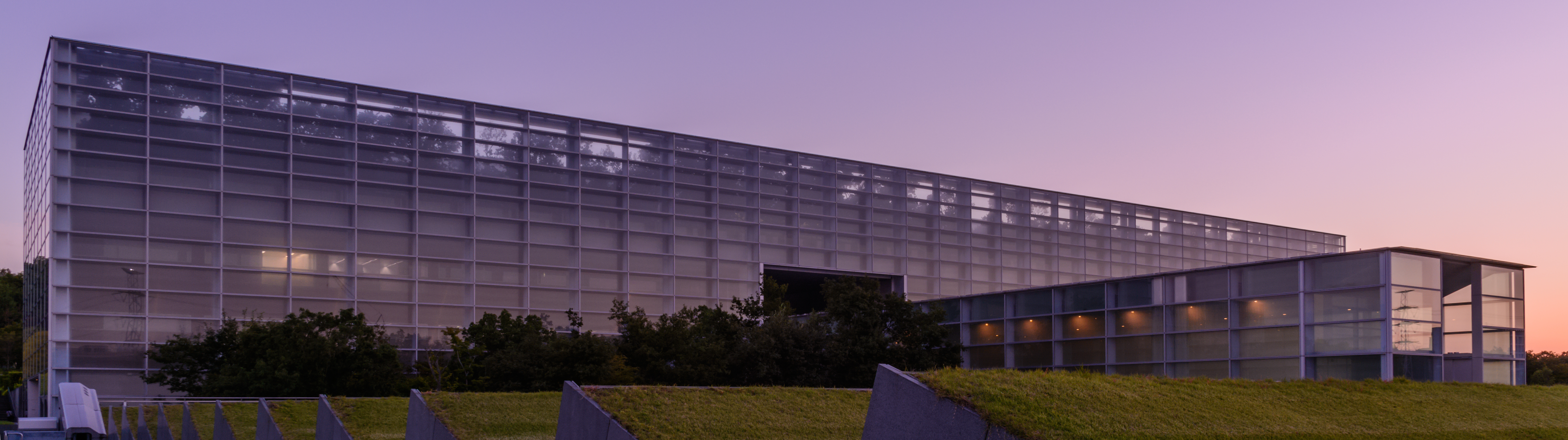 Kansai-kan of the National Diet Library